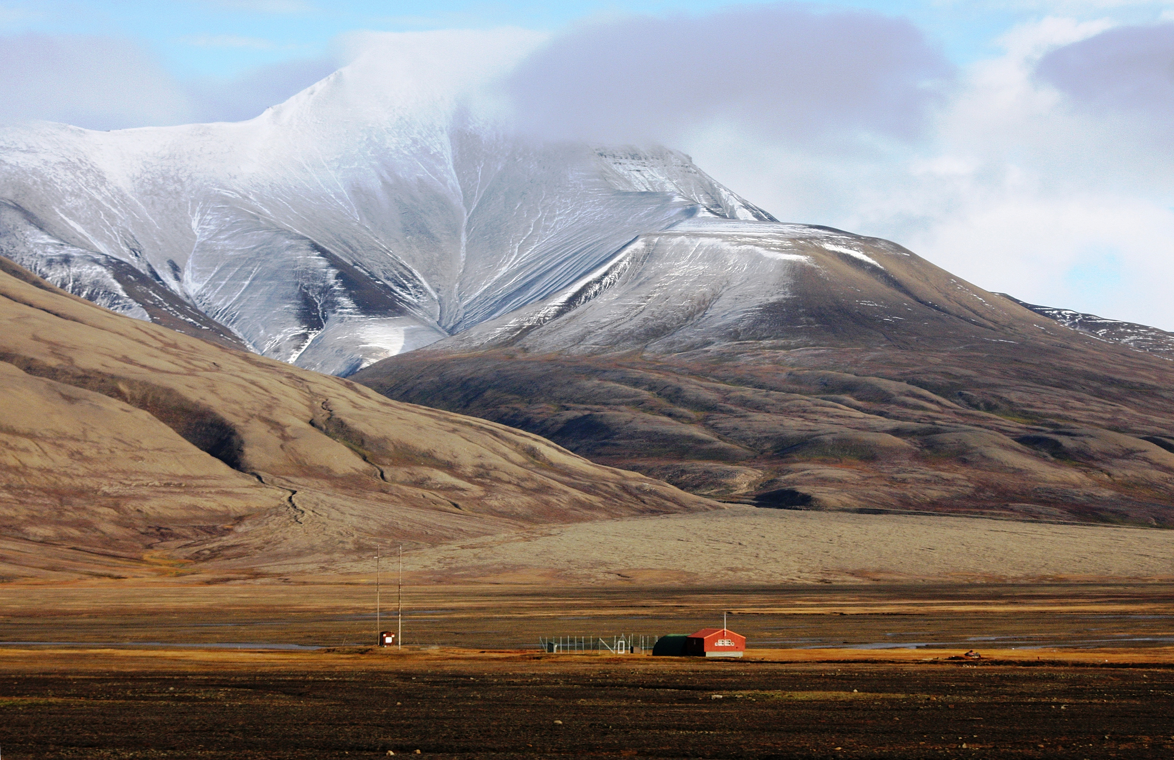 University of Tromsø field station of Biology, in Adventdalen, Spitsbergen